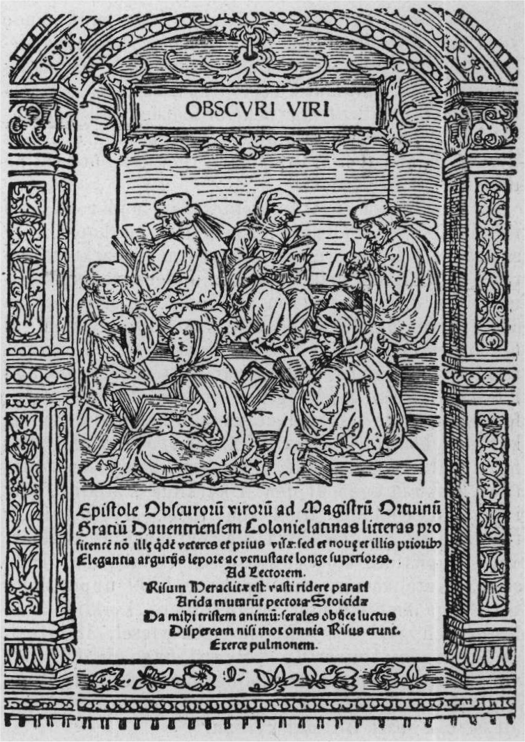 Title page of Epistolæ obscurorum virorum part 2, published 1517